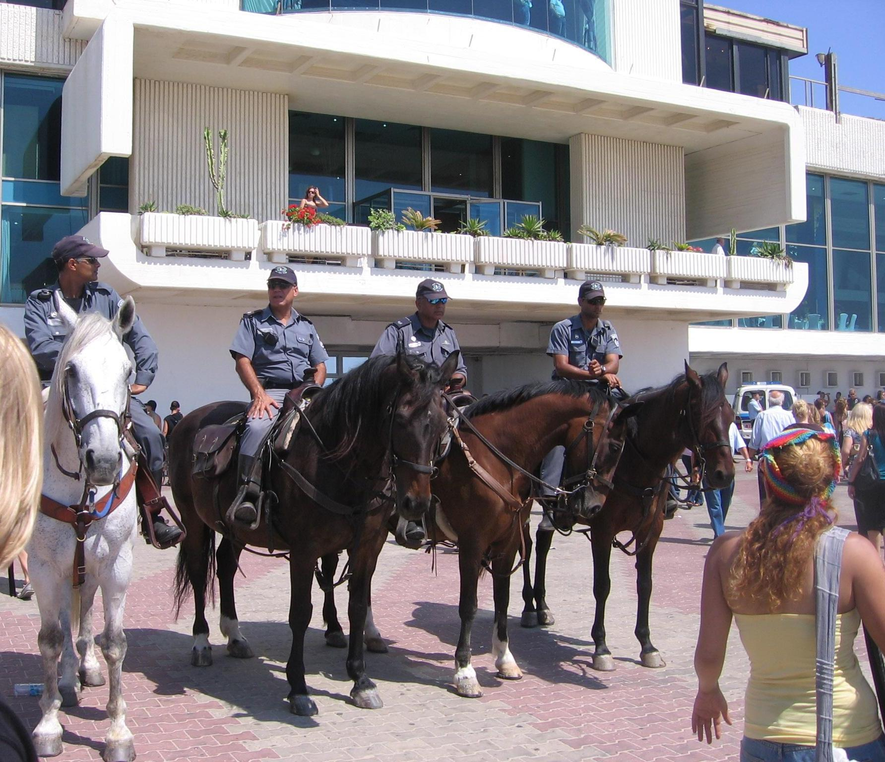 Police cavalry in Israel